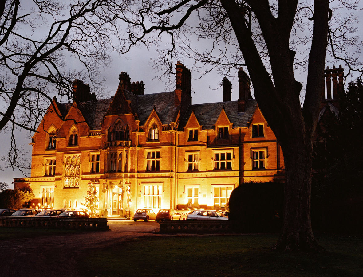 Wroxall Abbey Estate's main building, Wroxall Abbey.